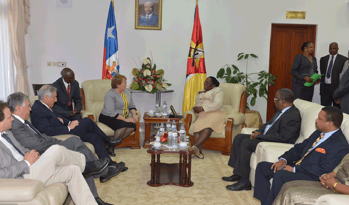 Michelle Bachelet, President of Chile, and Verónica Macamo, speaker of the Mozambican national parliament.